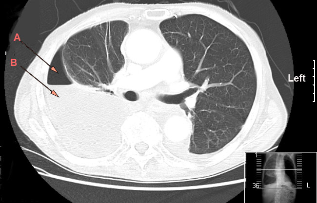 CT chest: Arrow A- air, B- Fluid. Large hydro-pneumothorax, unilocular, some pleural thickening. Appearance suggestive of empyema. Associated collapse of right lung. Air in this patient is iatrogenic, from introduction of previous chest drain. Permission obtained from patient.